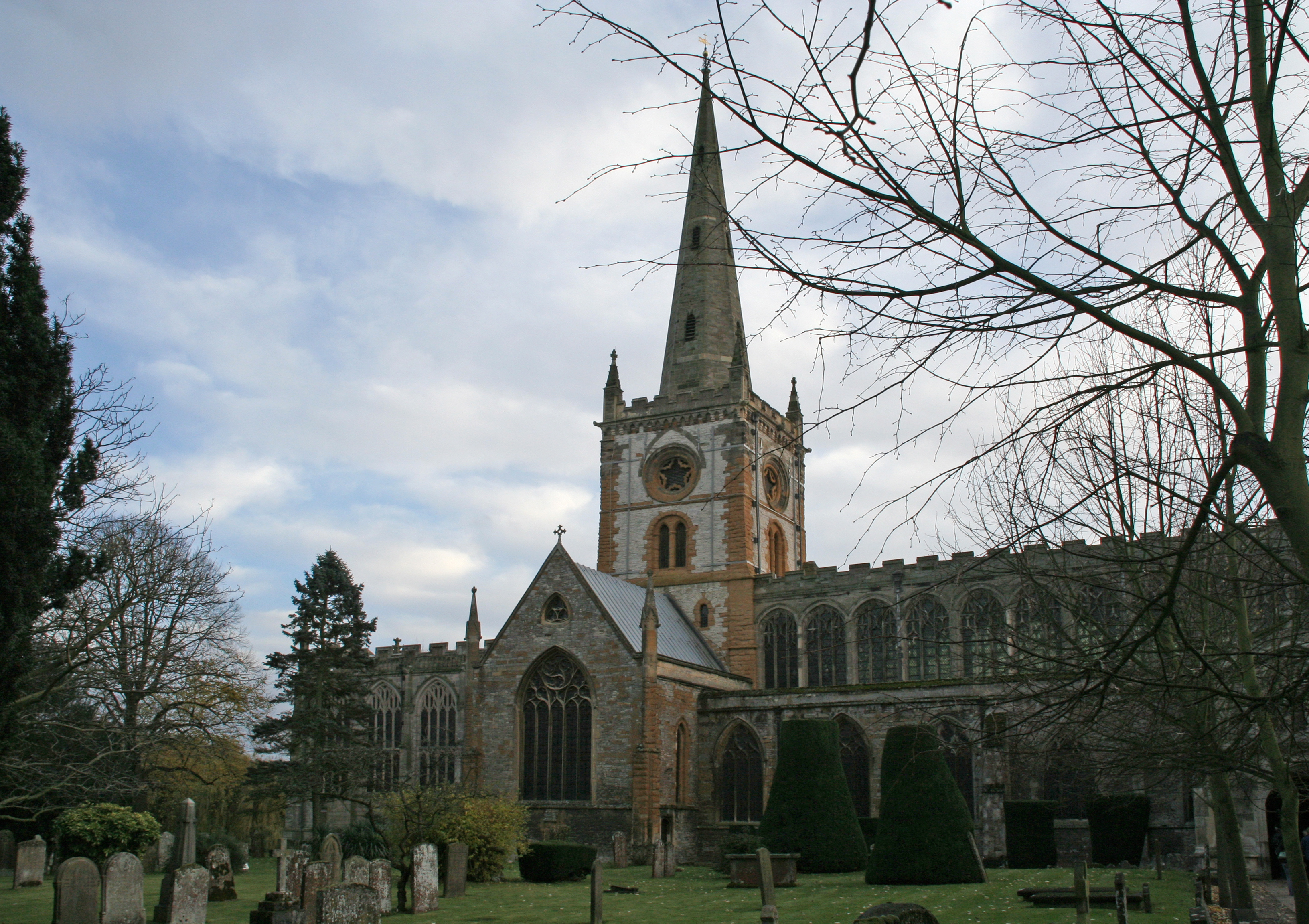 Church of the Holy Trinity Stratford